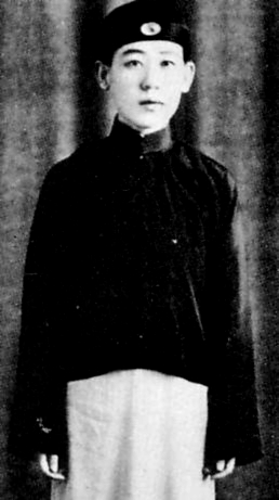 Aisin-Gioro Xianyu (Yoshiko Kawashima)